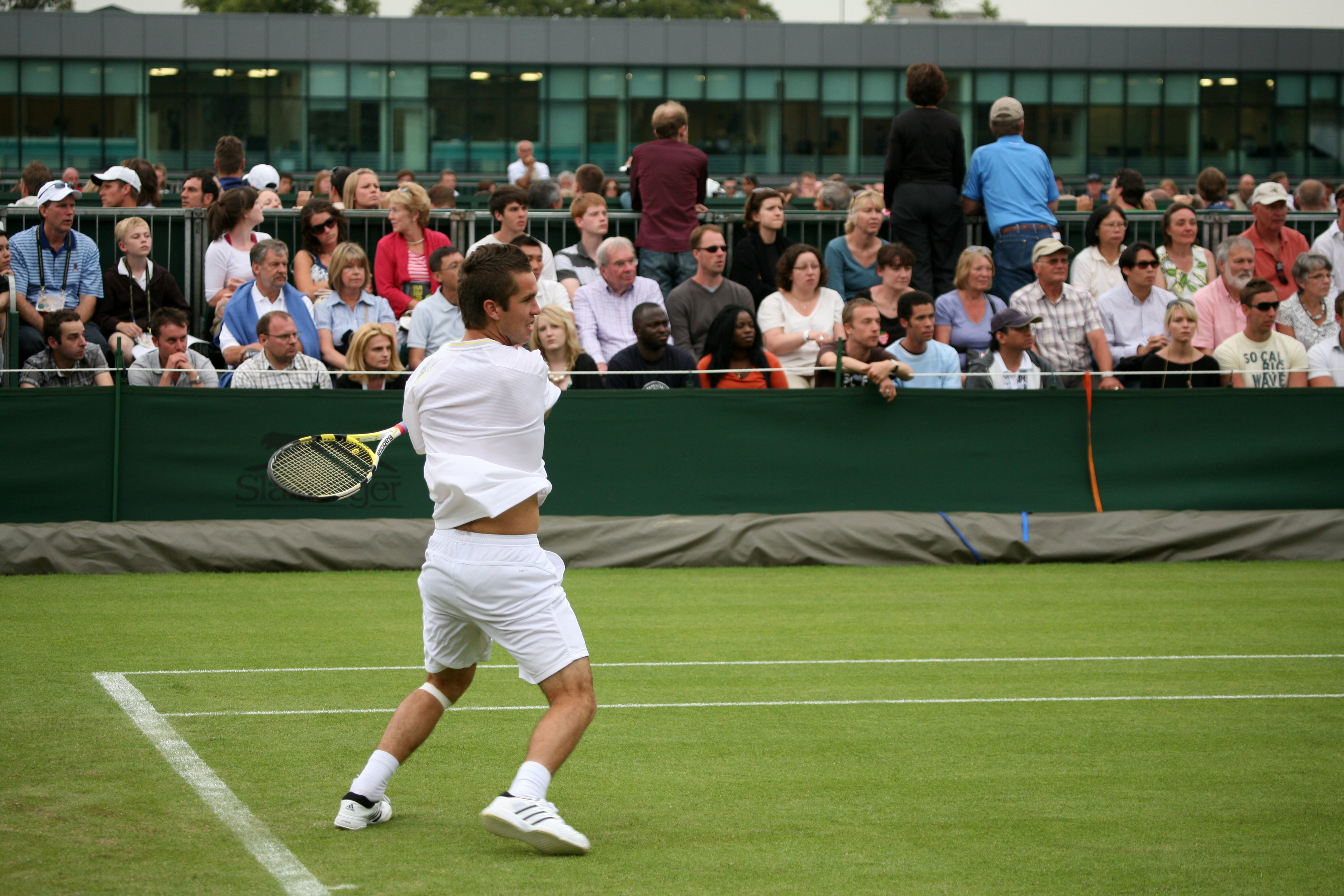 Luka Gregorc against Tommy Robredo in the 2009 Wimbledon Championships first round